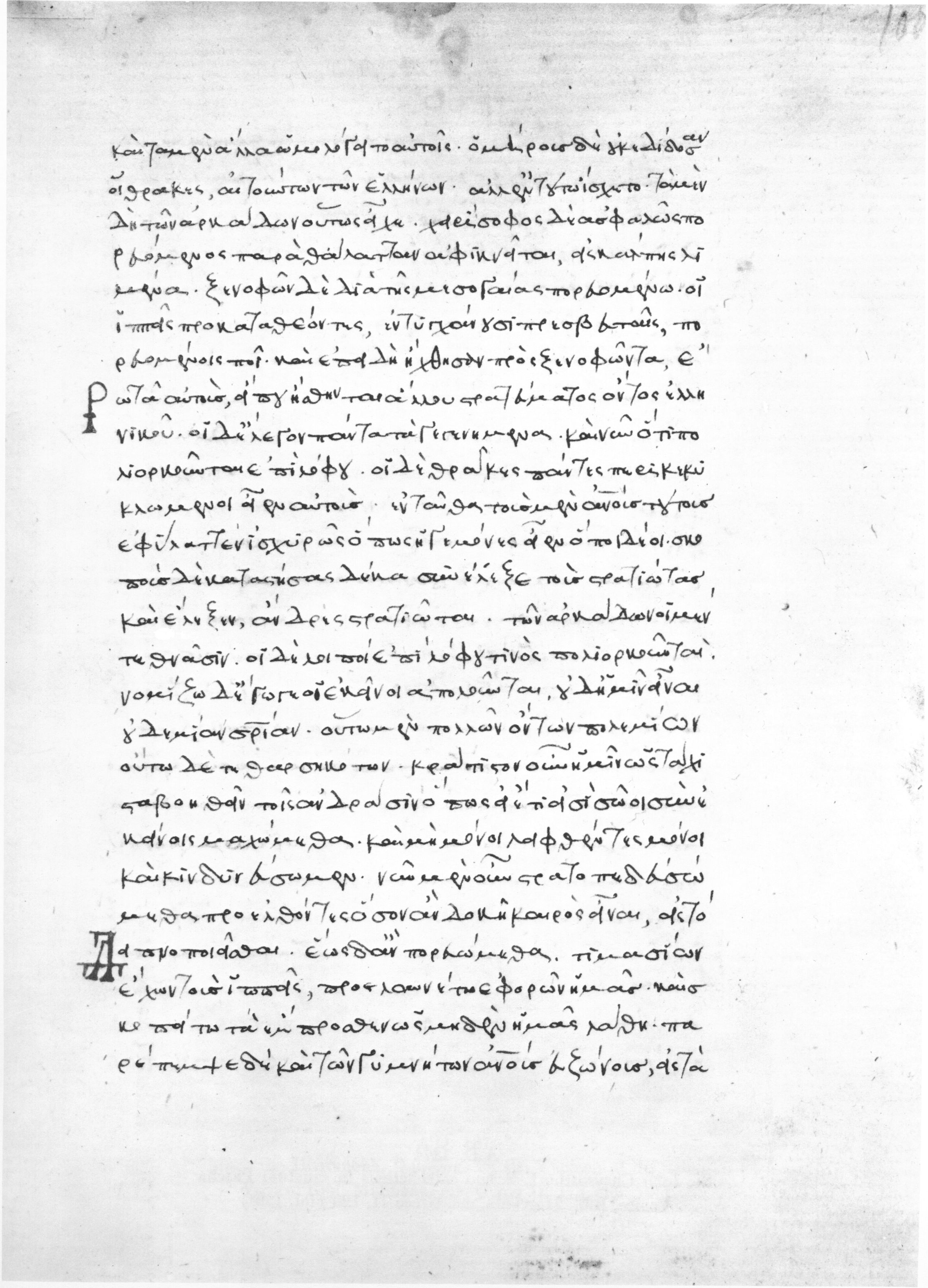 Xenophon, Anabasis, in ms. Milan, Biblioteca Ambrosiana, A 78 inf., fol. 100r.